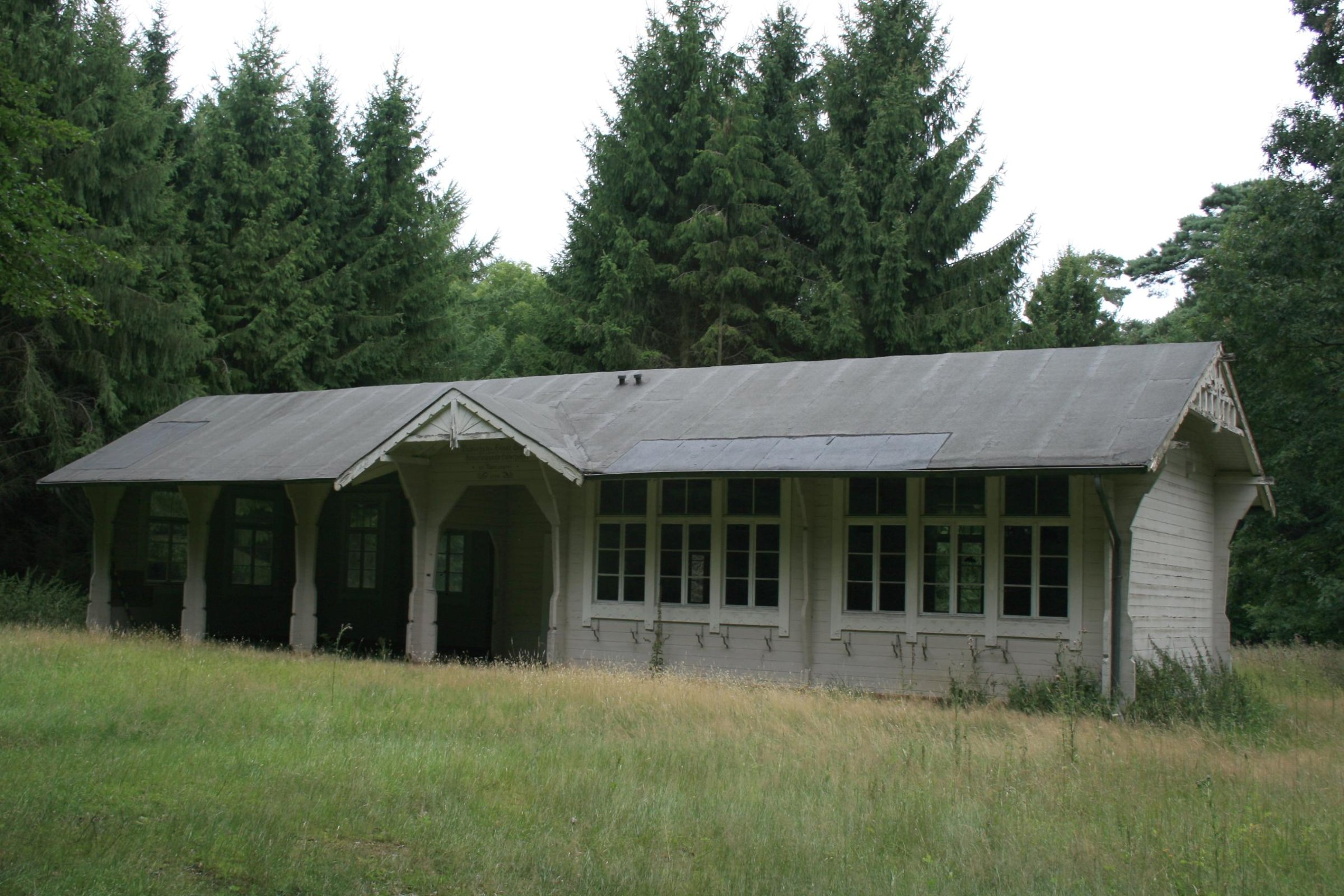 Cultural heritage monument No. L 019 in Mönchengladbach